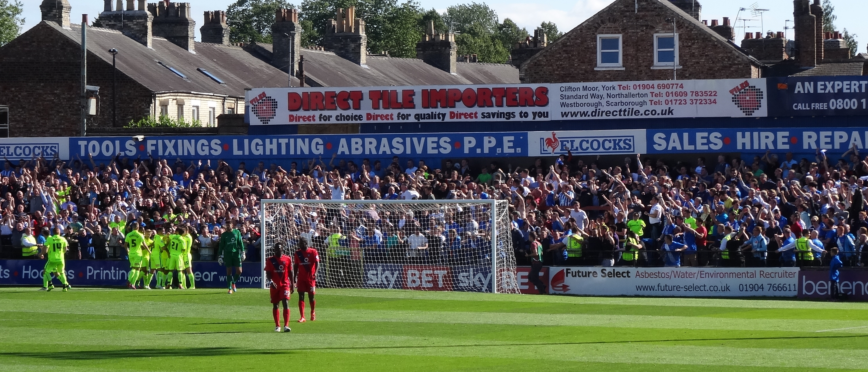 The Grosvenor Road End at Bootham Crescent, York, during a match between York City and Hartlepool United on 15 August 2015